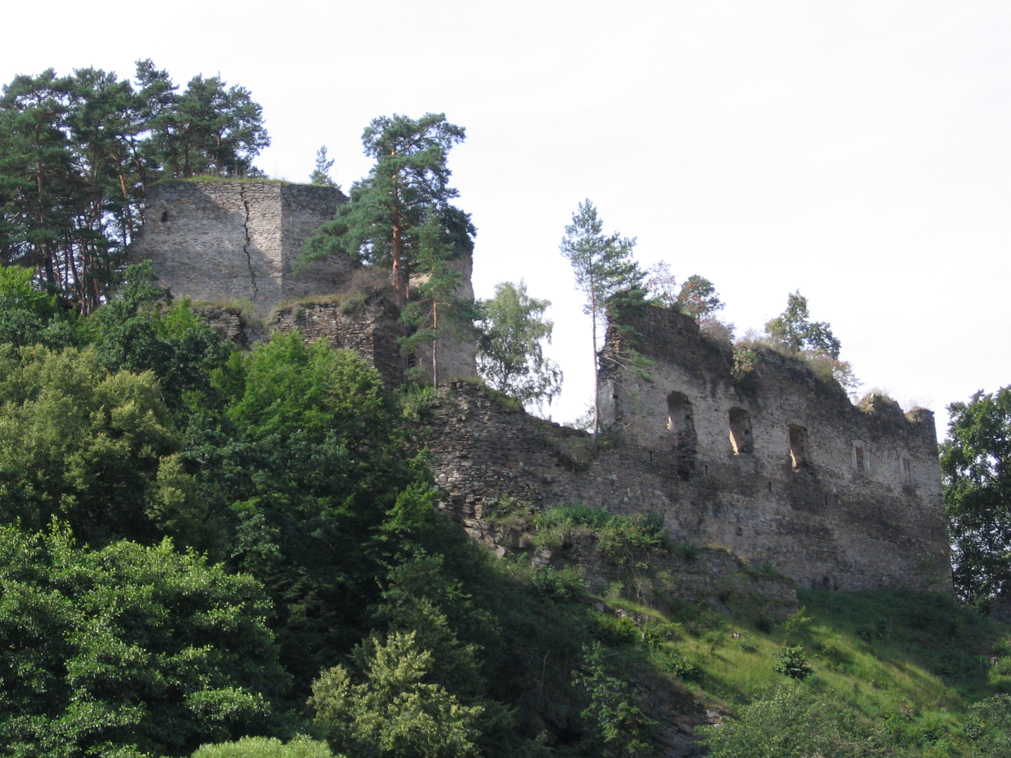 Ruins of the Frejštejn Castle, which is situated in village Podhradí nad Dyjí (Southern Moravia, Czech Republic)